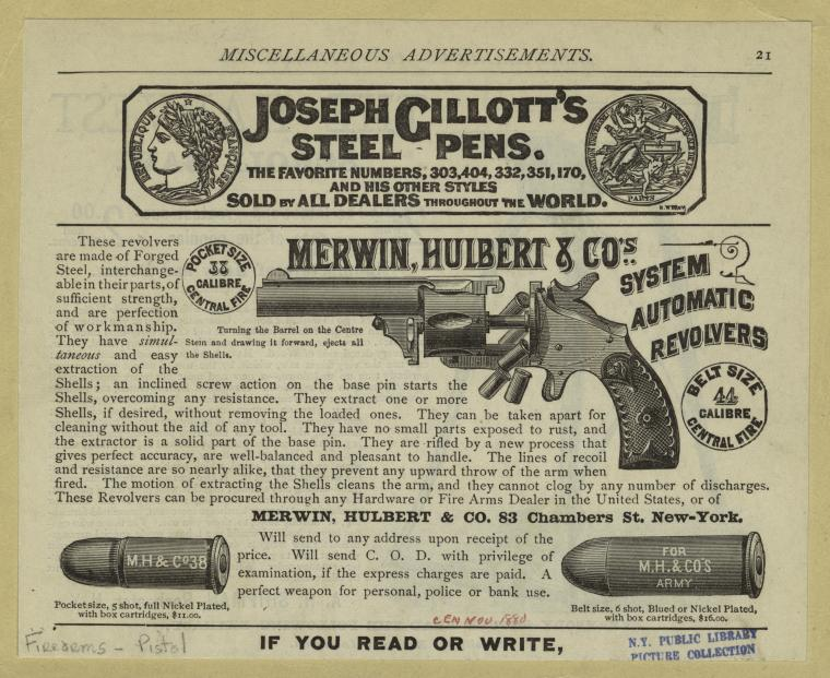 Header: Merwin, Hulbert & Co.'s system automatic revolvers. Additional title: Joseph Gillott's steel pens.